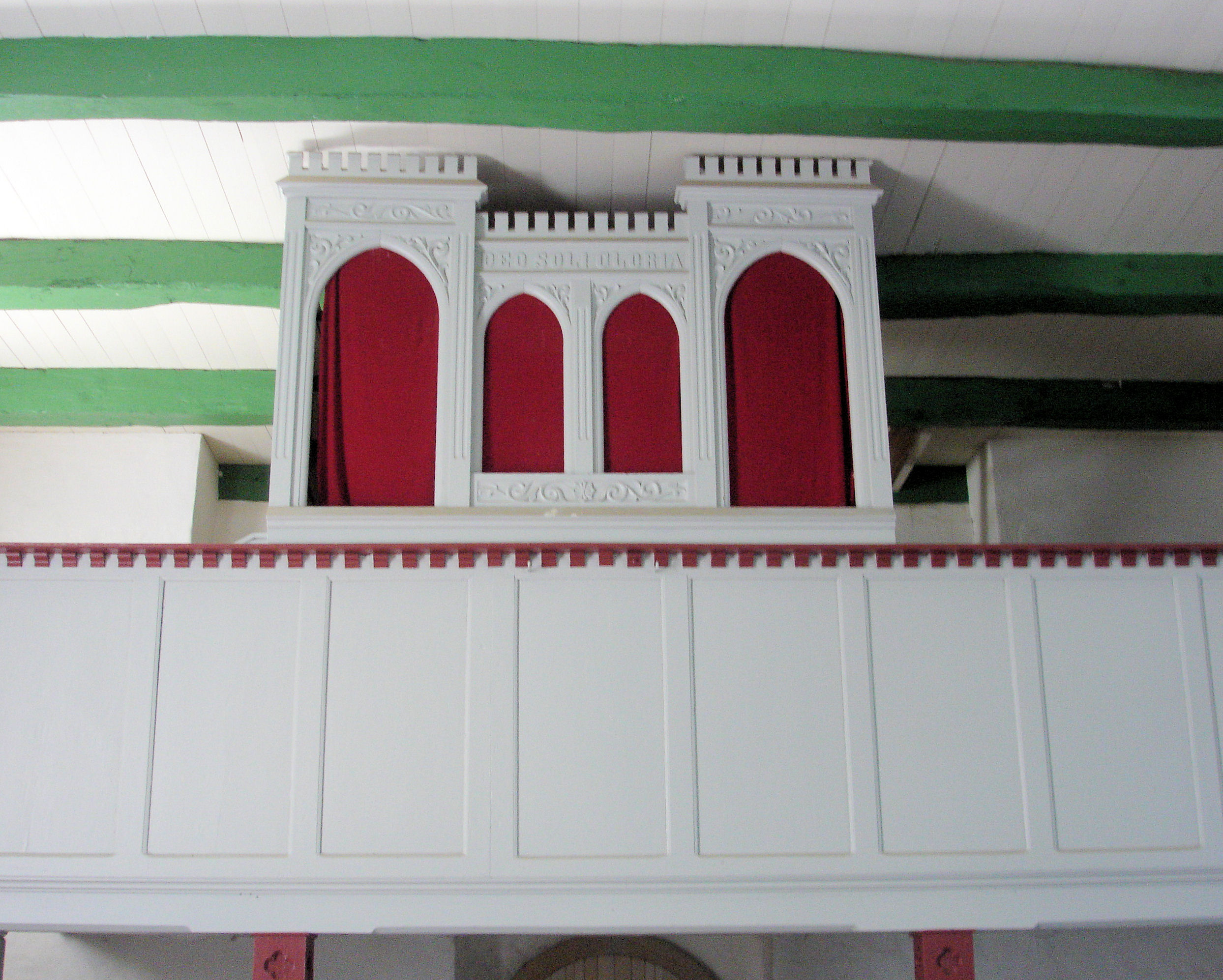 Church in Prestin, district Ludwigslust-Parchim, Mecklenburg-Vorpommern, Germany Matroneum with pipe organ (out of order)